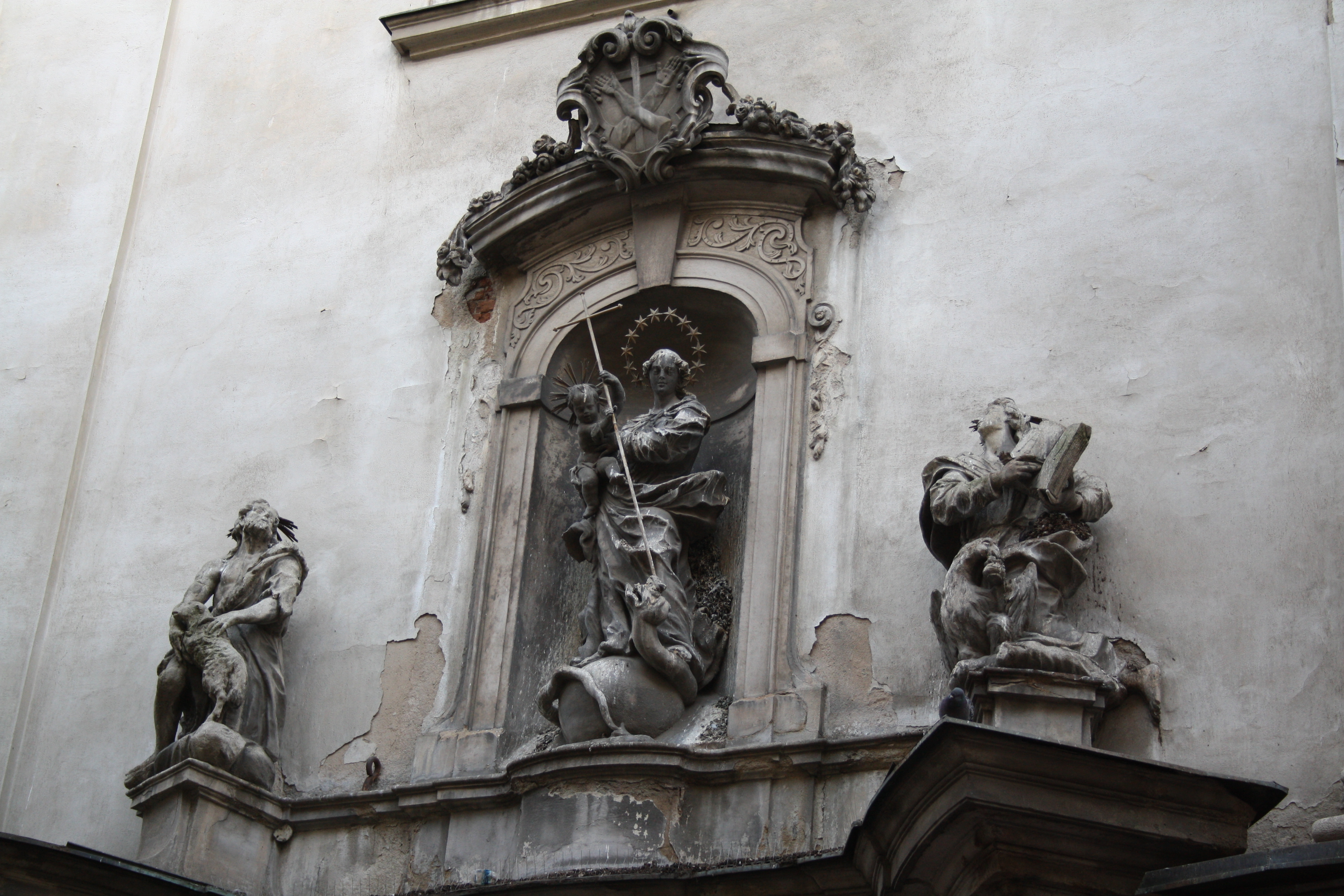 Detail of statues above door of Monastery of Minorits in Brno-Center.